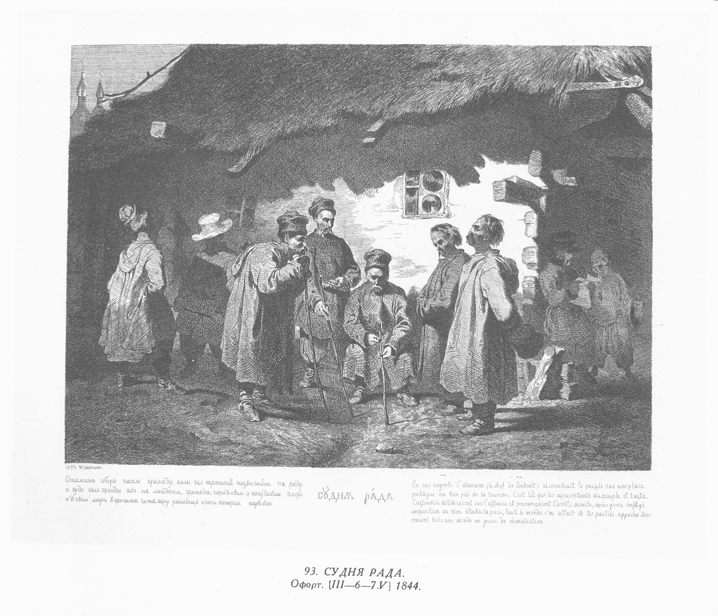 Painting of Taras Shevchenko